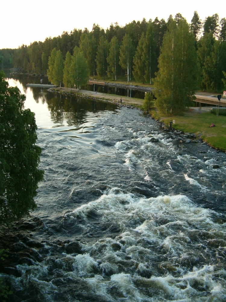 Karvionkoski rapids, view from the bridge going over Karvio canal and the rapids. Heinävesi, Finland.